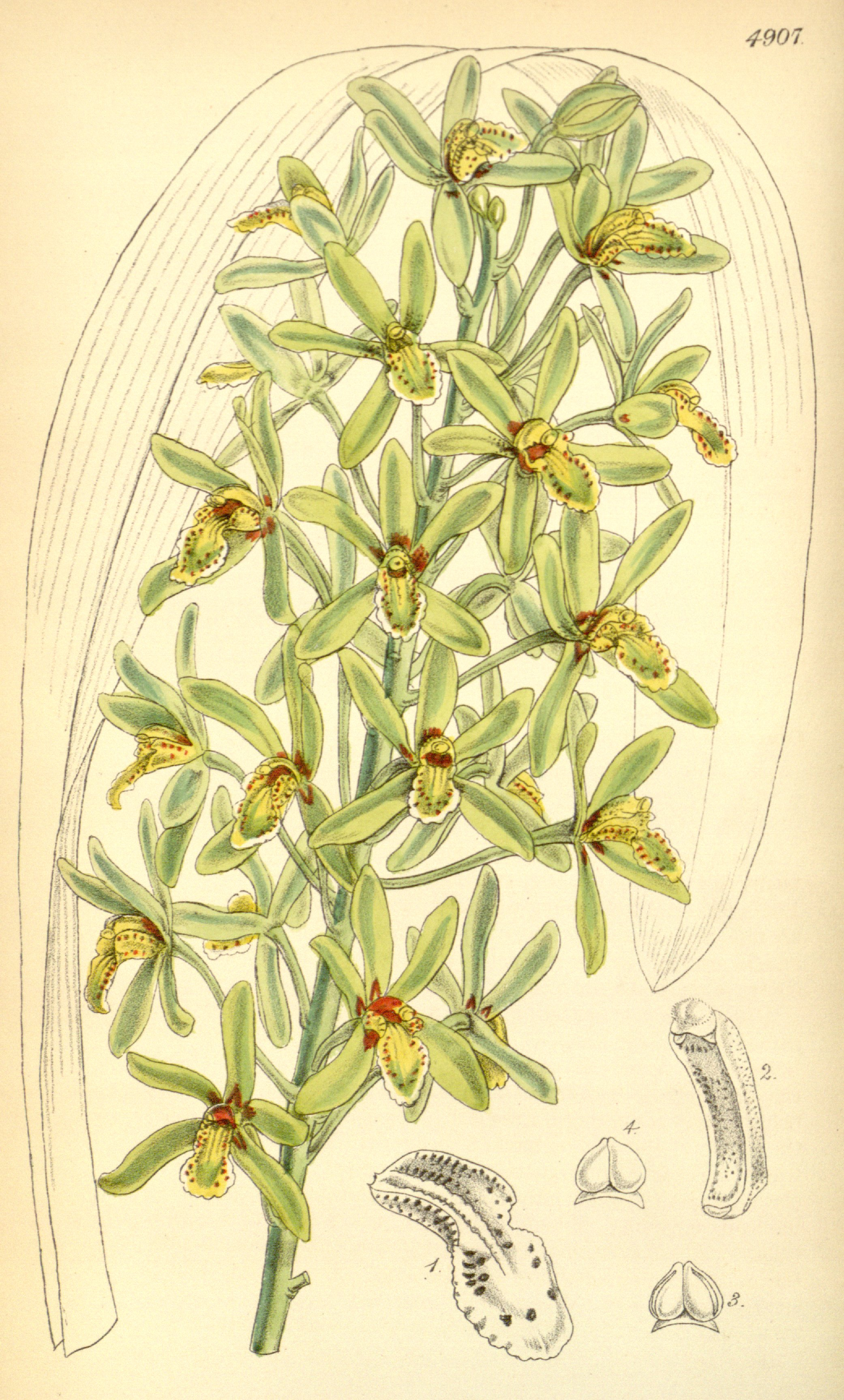 Illustration of Cymbidium chloranthum